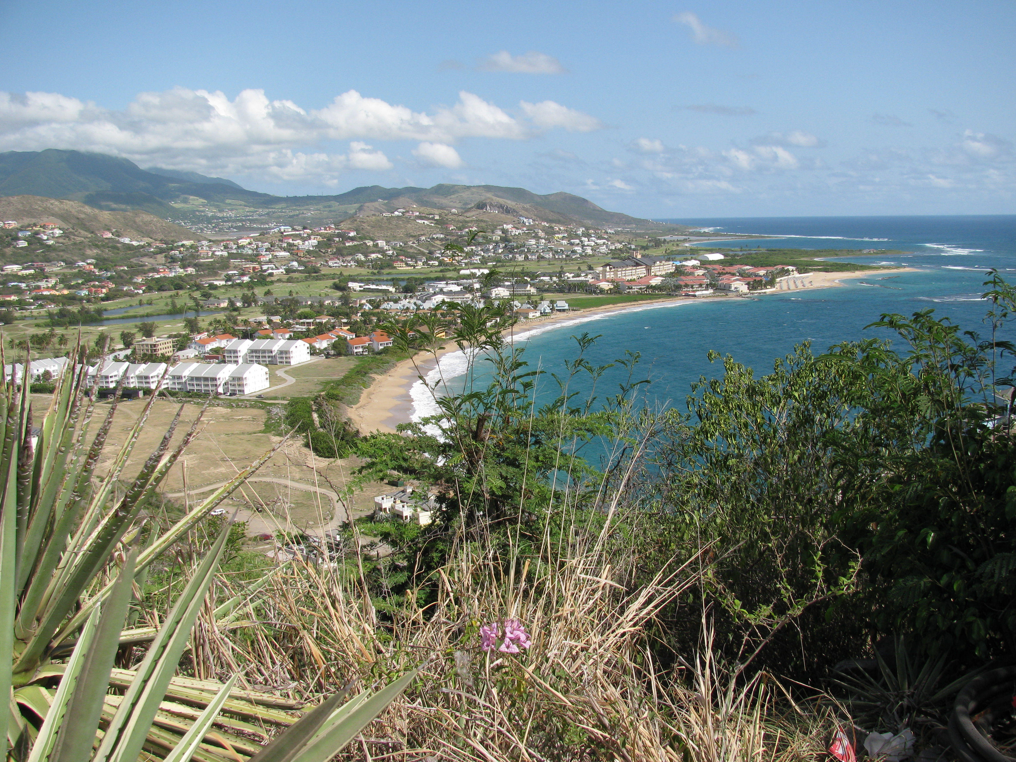 Frigate Bay in St. Kitts 2014